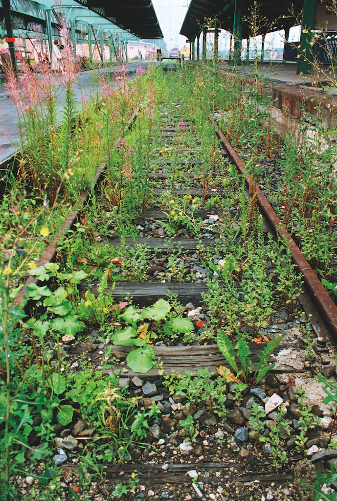 What is beyound plants is at One with Them railway track, planting with indigenous plants and neophytes, length 100m. Contribution of Lois Weinberger for the documenta 10 at Kassel main station.